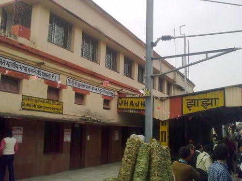 platform board of board of jhajha, jhajha, Bihar, India